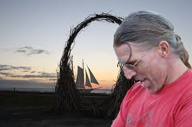 a twenty-foot-tall, ephemeral, interactive sculpture set in Key West's famed Fort Zachary Taylor State Park, and subject of the short documentary film "Moongate: forest of ghosts".